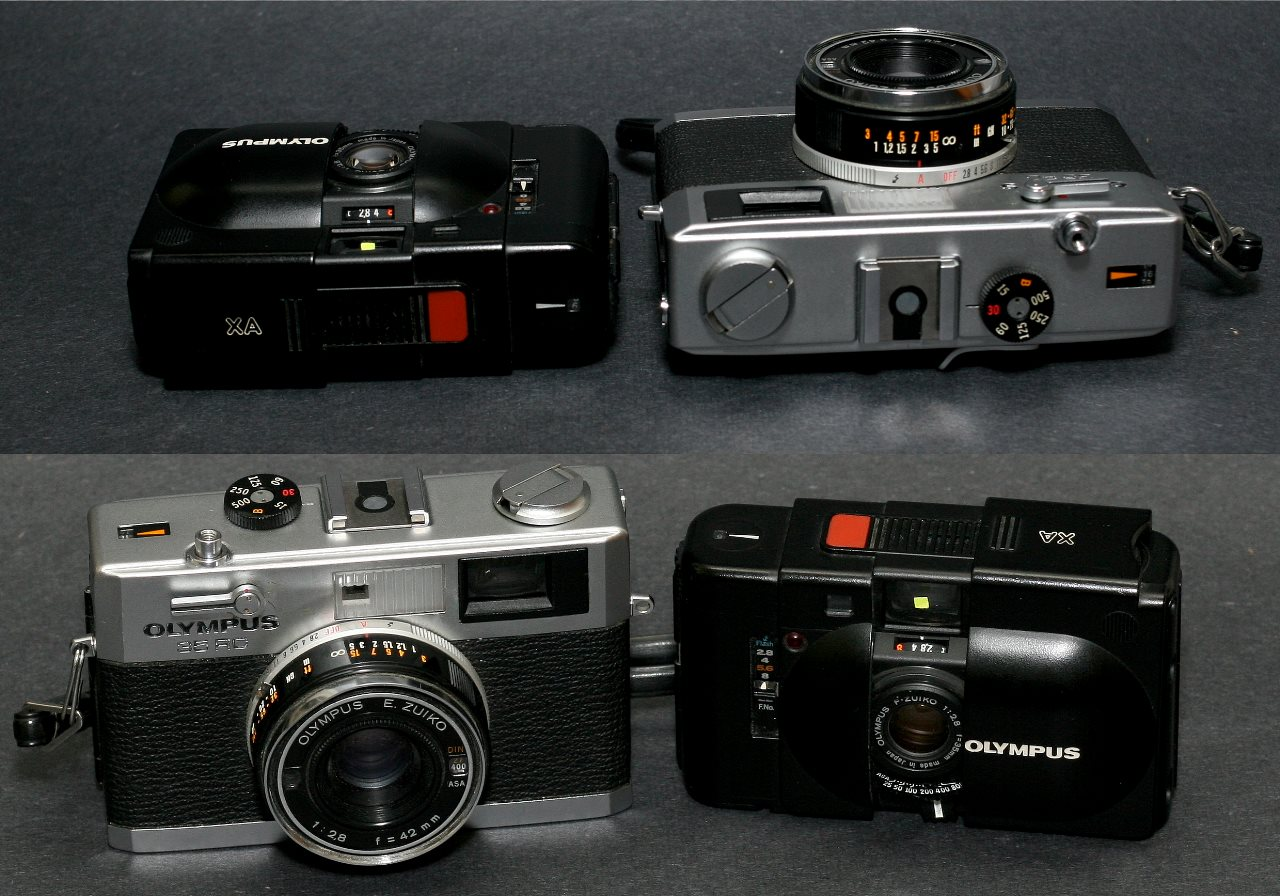 Olympus 35 RC vs. XA size